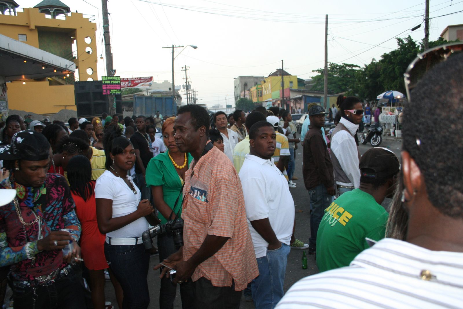 Streets of Kingston, Jamaica